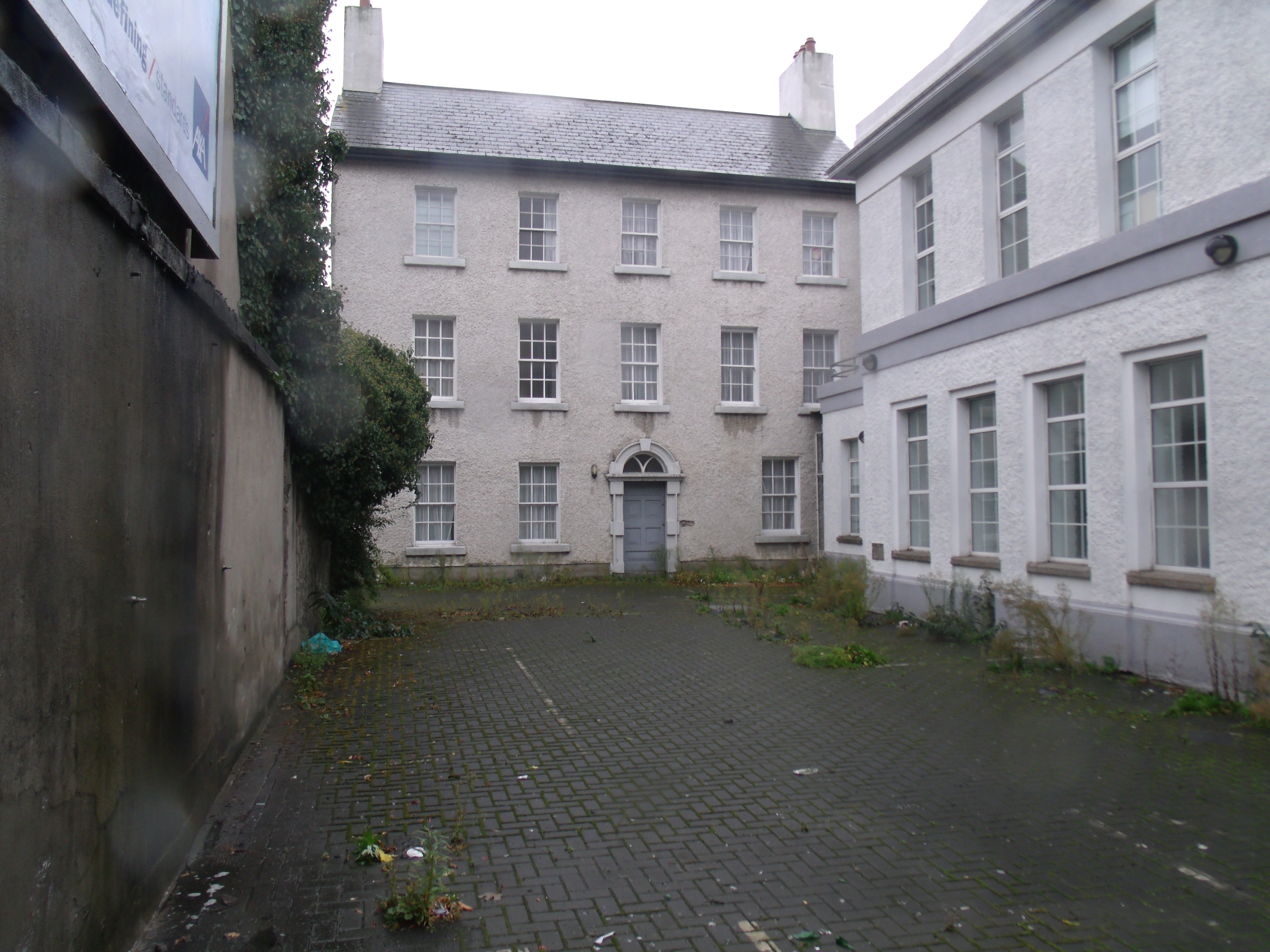 Saint Ultan's Hospital, Teach Ultain (Ultan House) 37 Charlemont Street The first infant hospital in Ireland. Established in 1919.